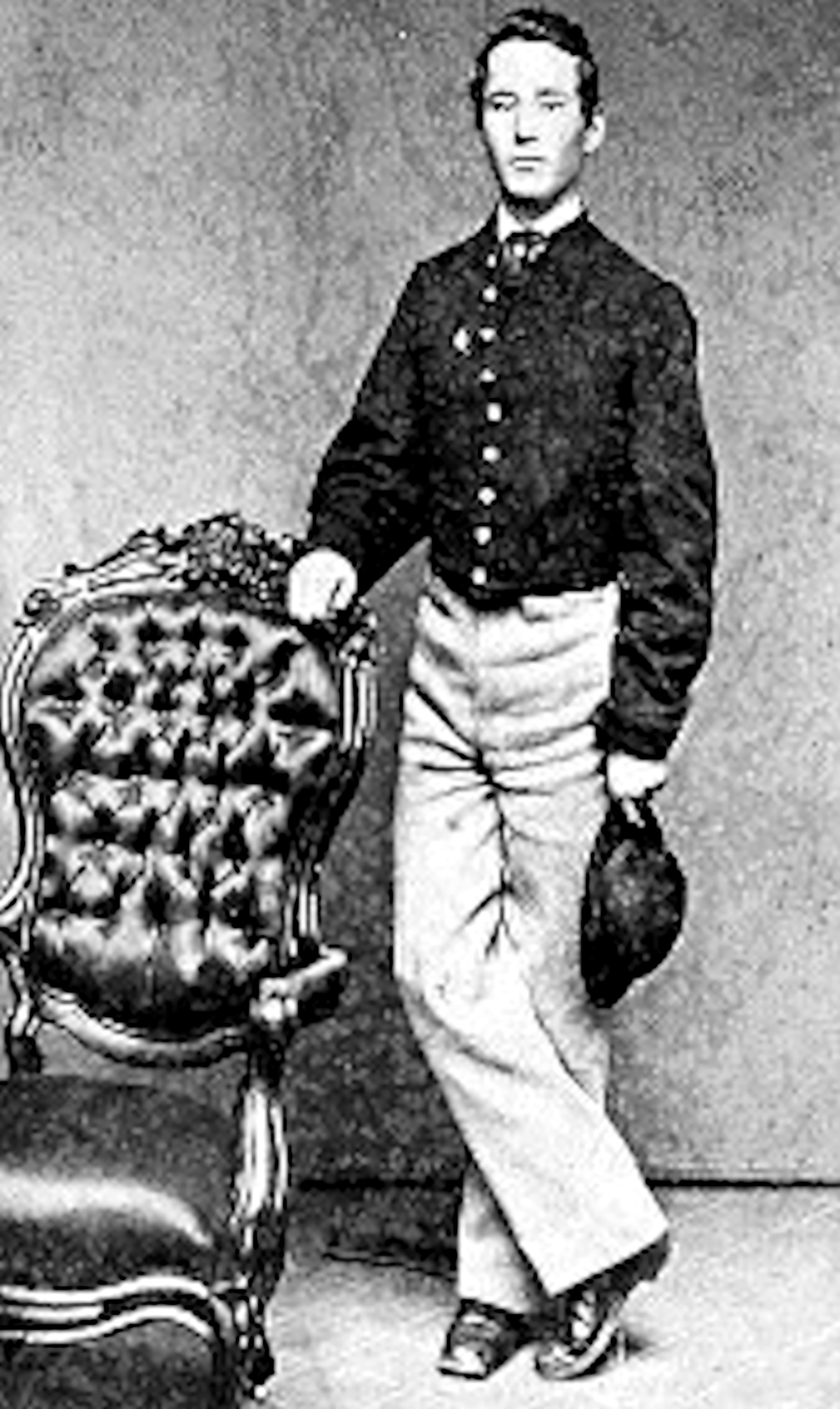 Charles D Marquette MoH winner